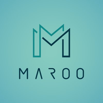 Logo Official Maroo